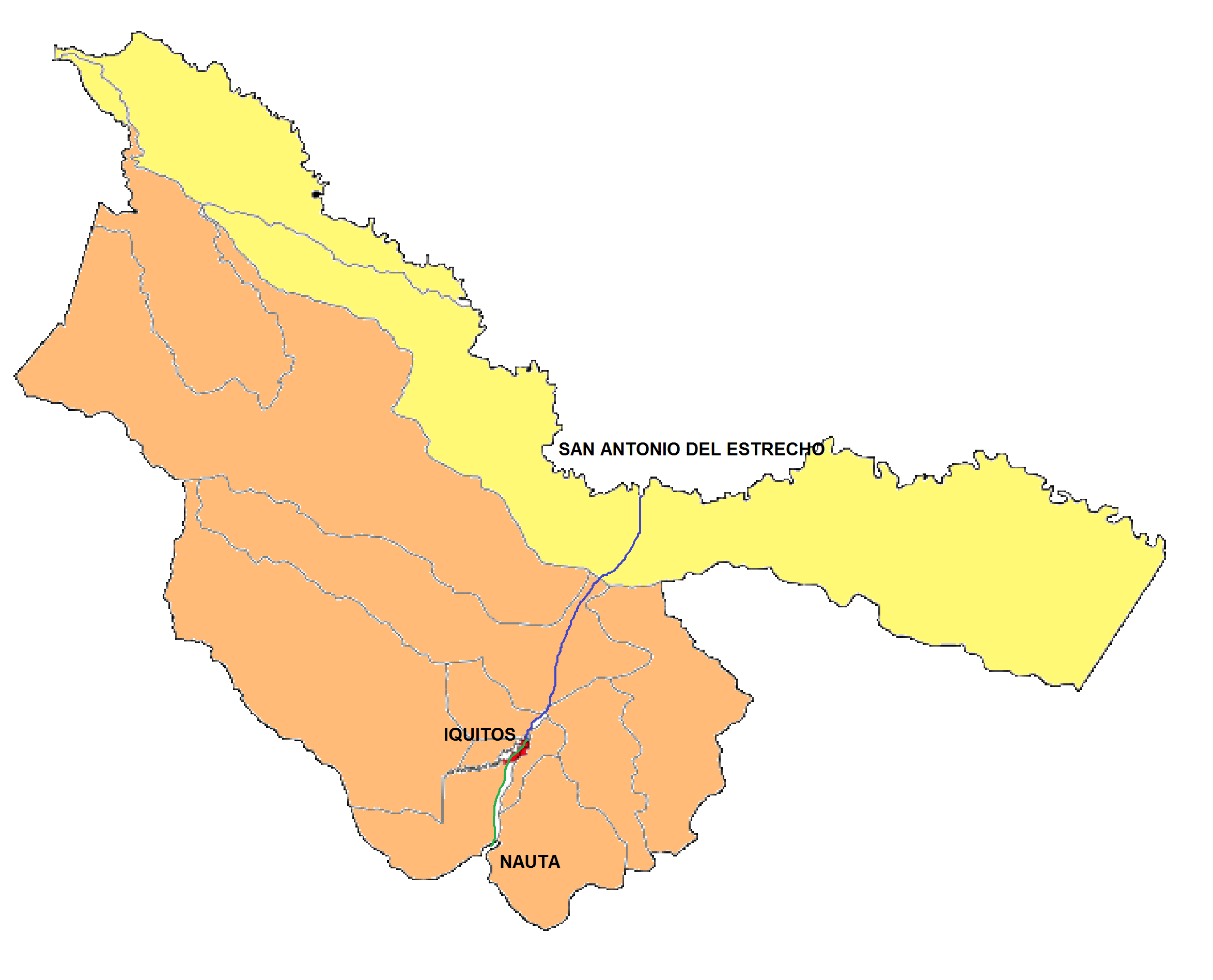 Ruta nacional PE-5NI Perú